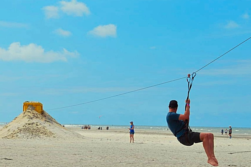 Zipline at Ameland Beach in the Netherlands during Madnes Festival 2017